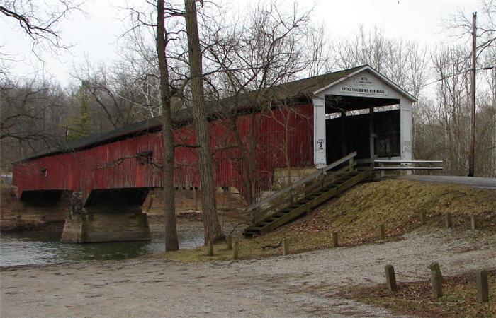 Deer's Mill, Indiana